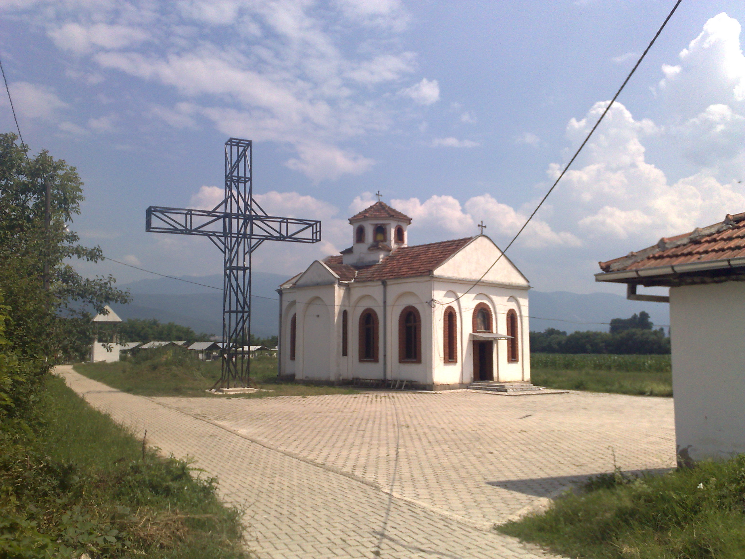 St. Athanasius Church in Dolno Sedlarce, Macedonia